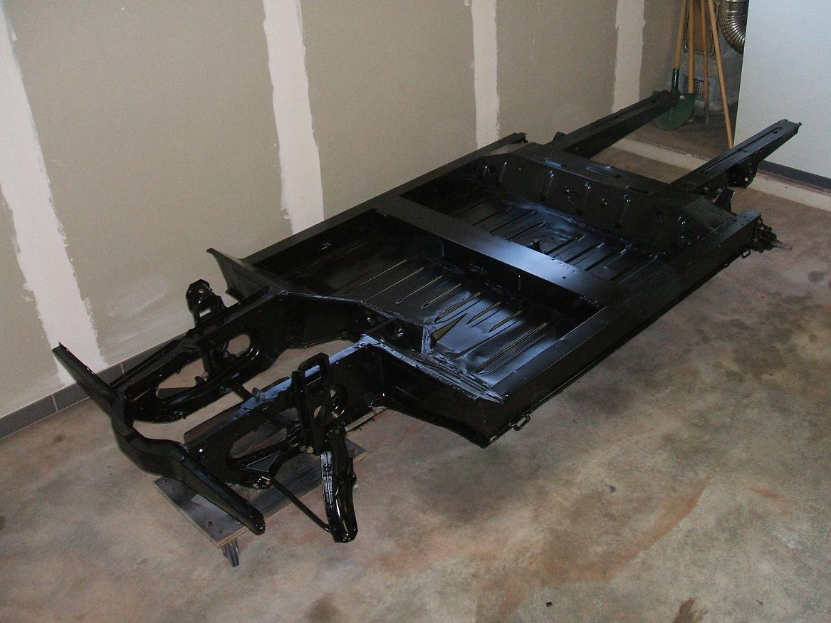 Restored chassis